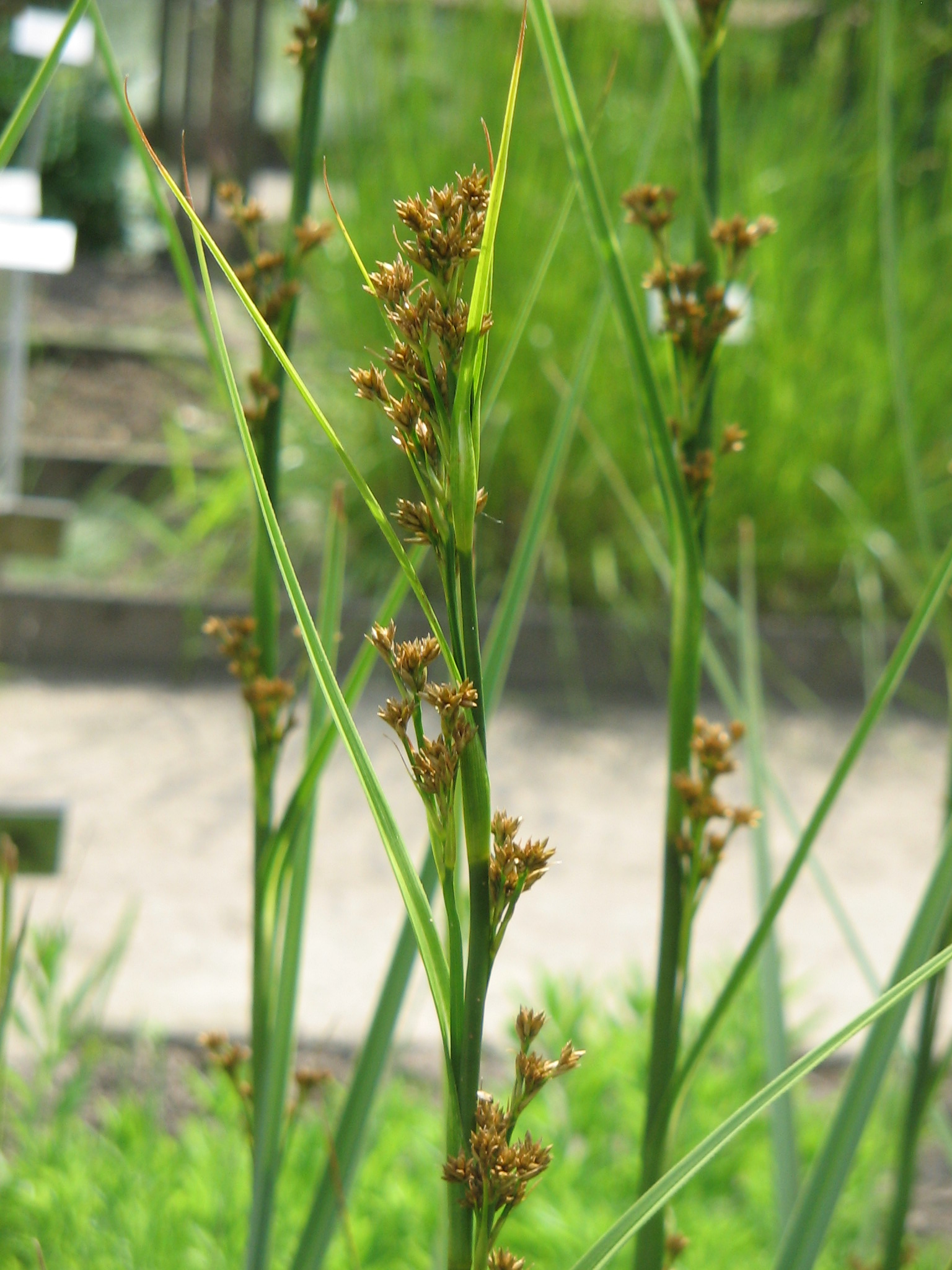 Cladium mariscus